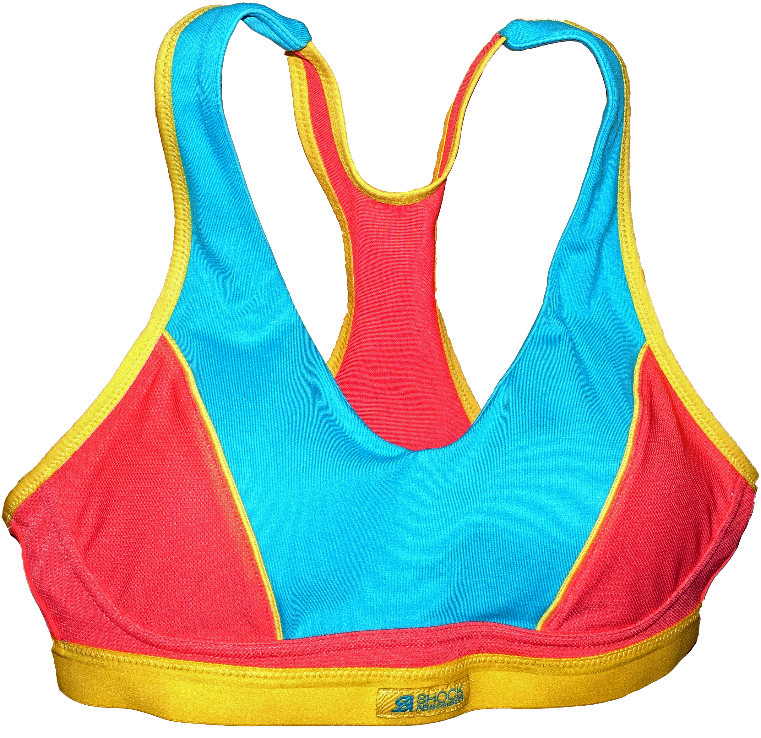 Blue-red-yellow color sports bras by the brand Shock Absorber.